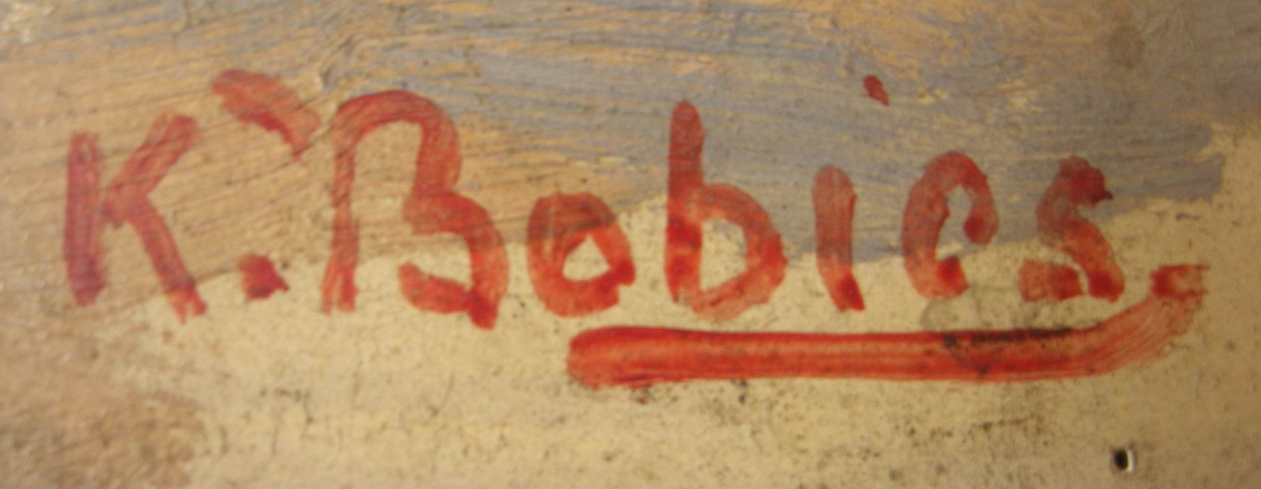 Signature of the landscape painter Carl Bobies